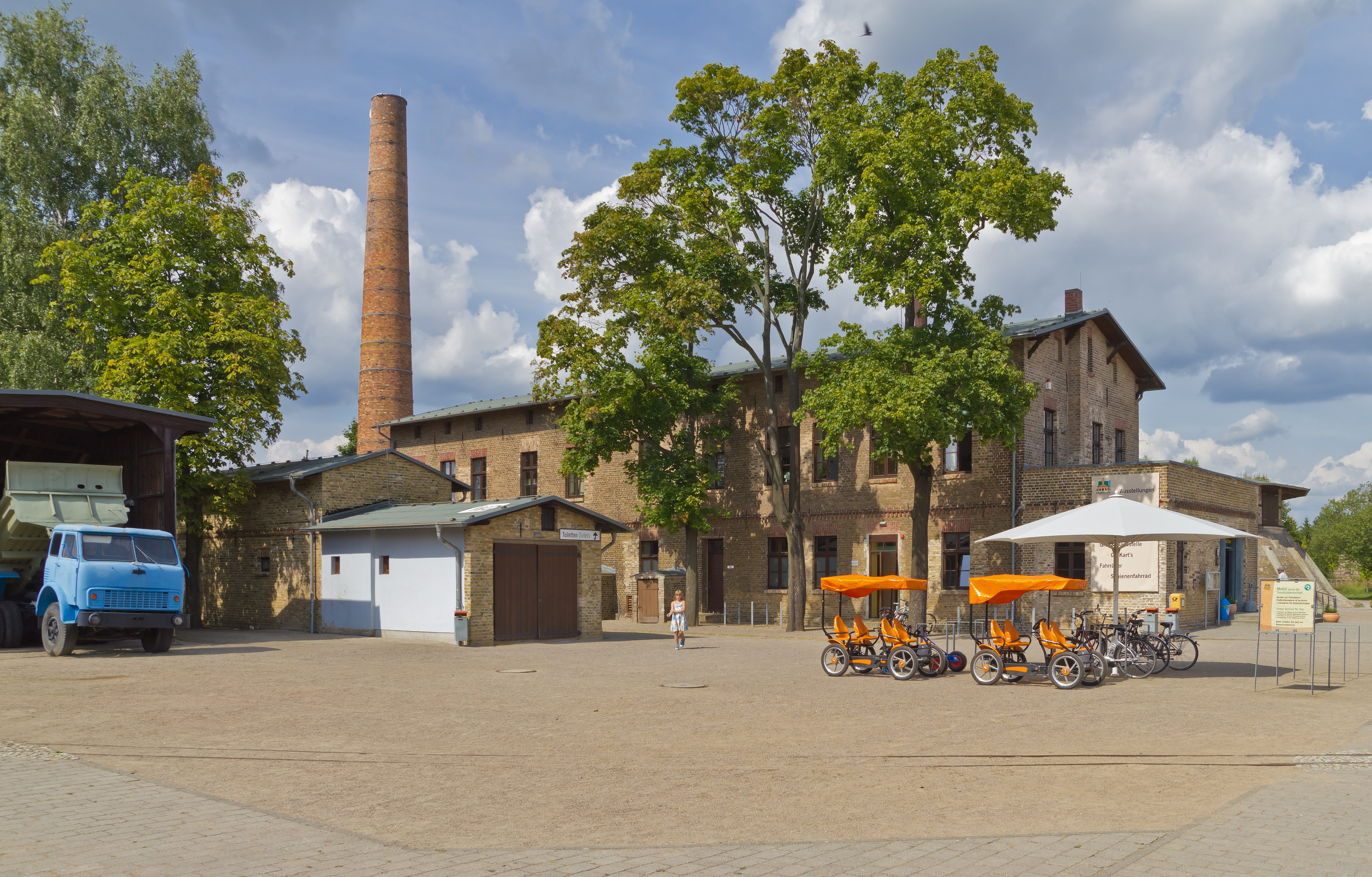 Brickyard Park in Mildenberg (Zehdenick), Brandenburg, Germany.